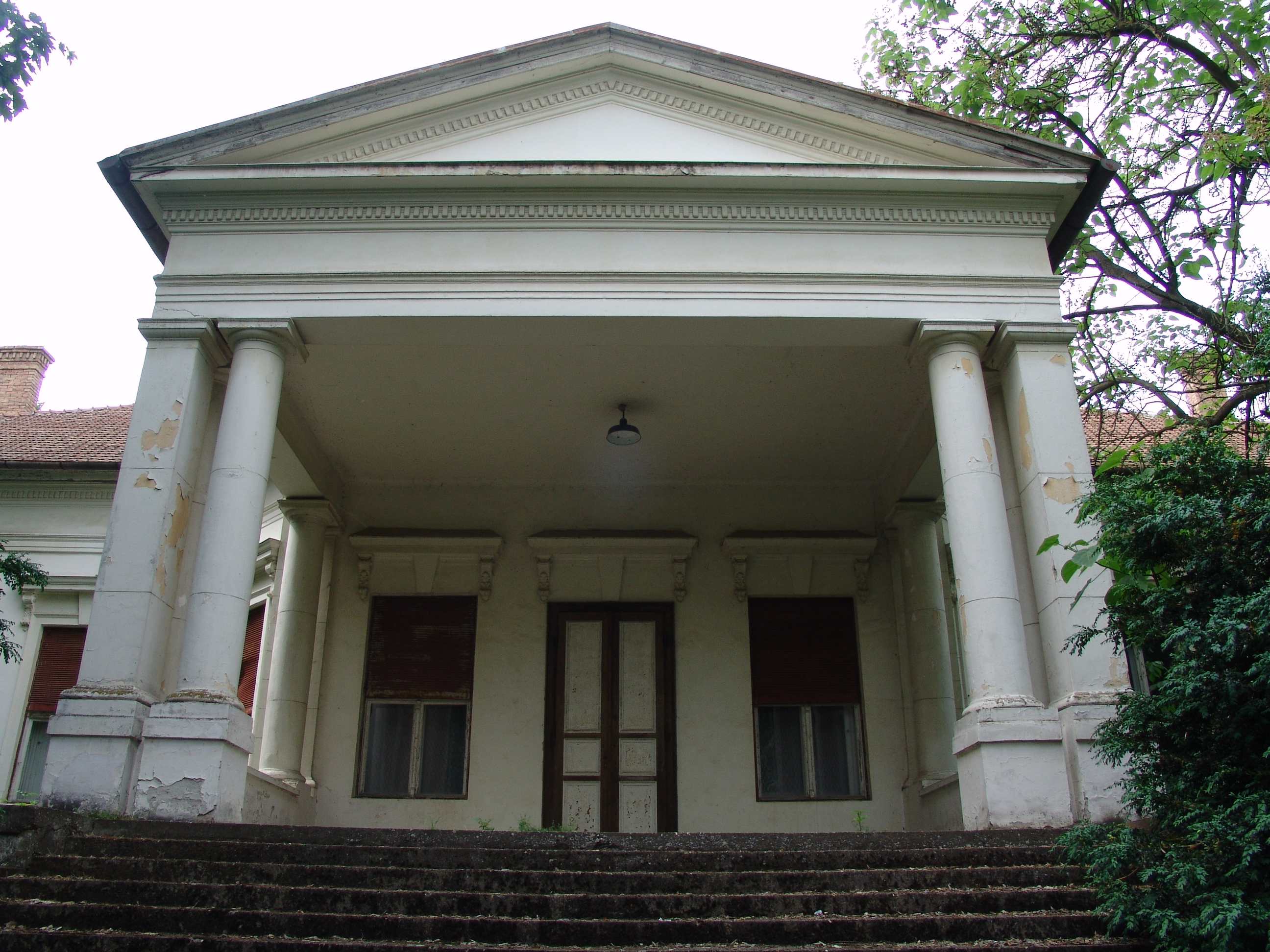 Sokolac castle near Novi Bečej - yard porch